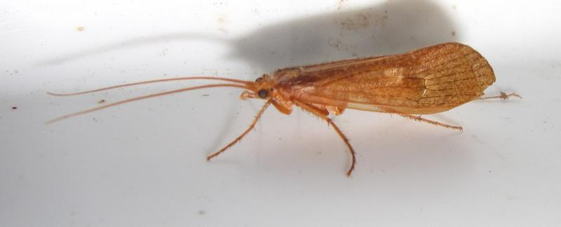 Stenophylax permistus. Location: The Netherlands - Gulpen-Wittem